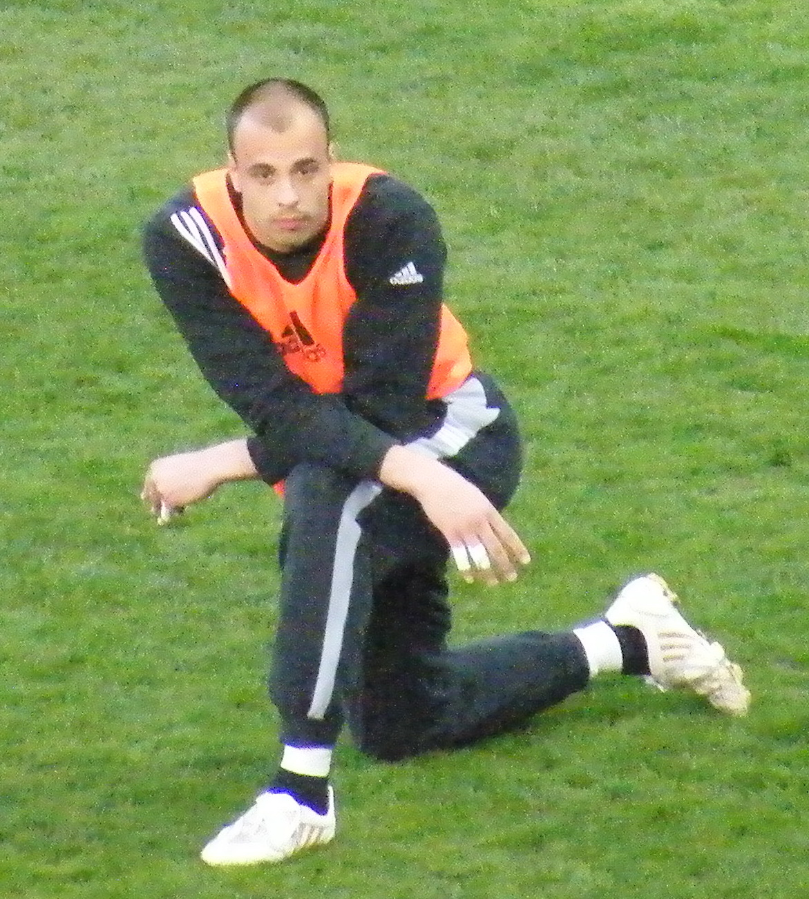 Đorđe Pantić Serbian football player